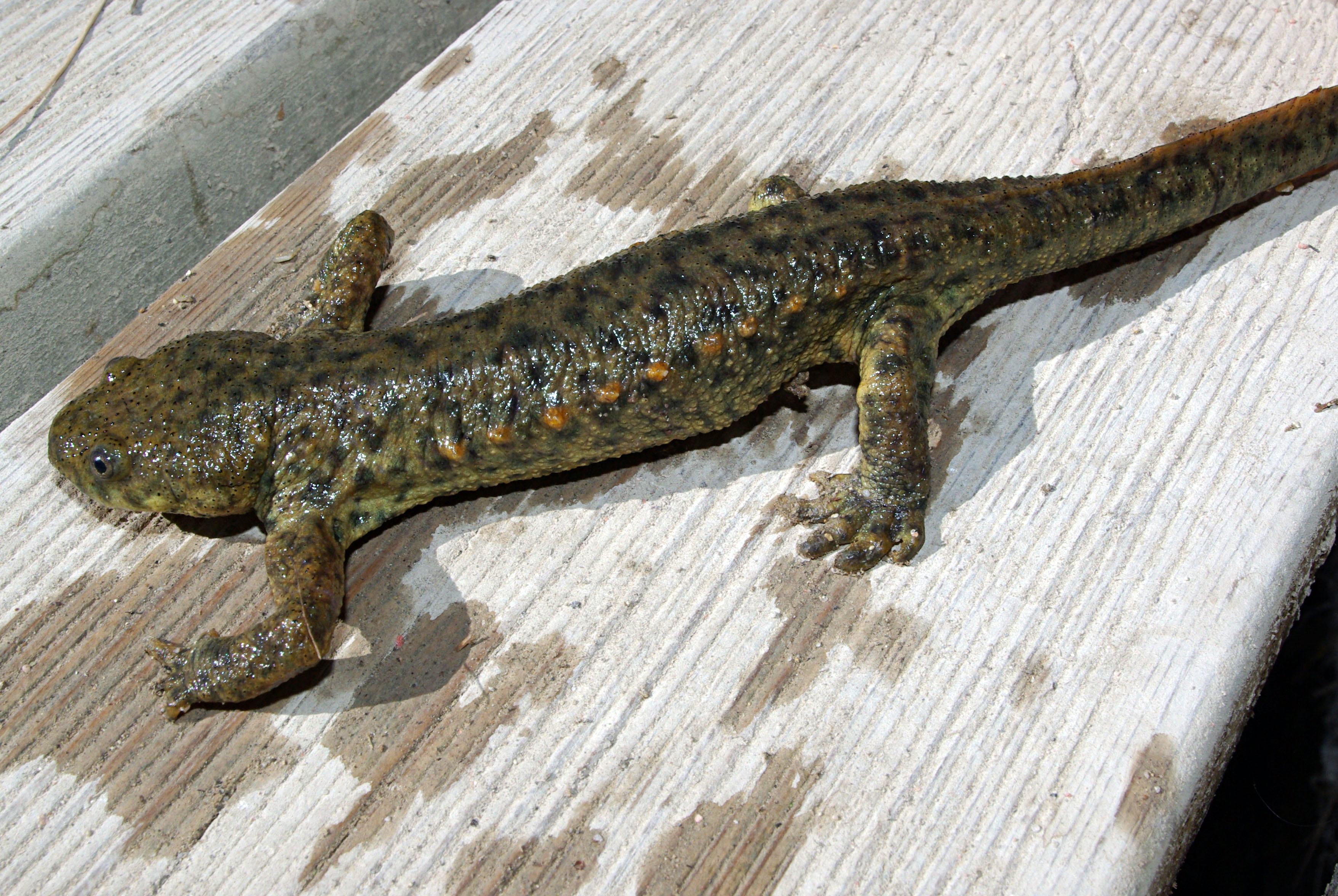 Iberian Ribbed Newt (Pleurodeles waltl) in River Duratón, near Castromonte (Valladolid, Spain)